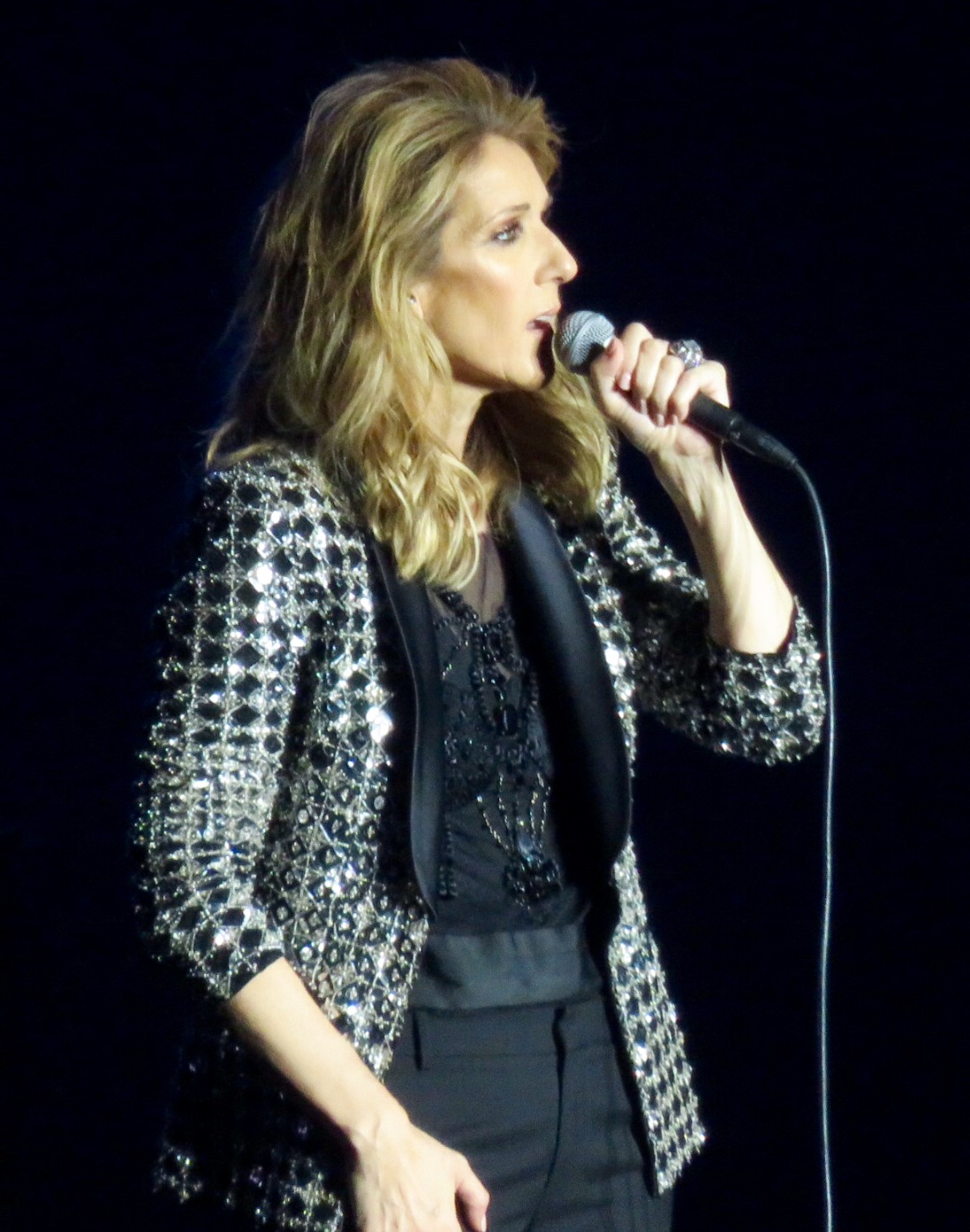 Celine Dion at Birmingham's NIA during her Céline Dion Live 2017 tour.